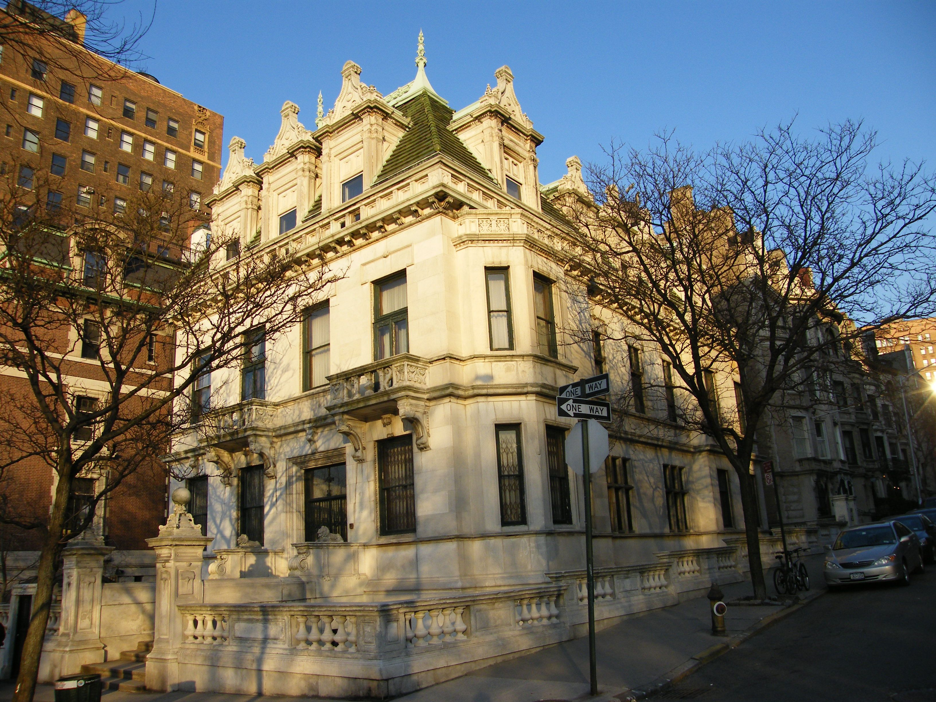 Looking across West 107th Street at Schinasi residence (Morris Schinasi (1855-1927)) at 351 Riverside on National Register of Historic Places in New York City. NYCLPC designation 1974; Guidebook map 14.